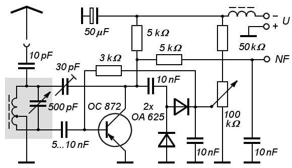 Wiring of an ancient receiver (in